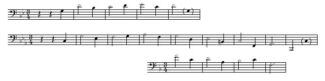 Bach: Passacaglia c-moll BWV 582 (theme)